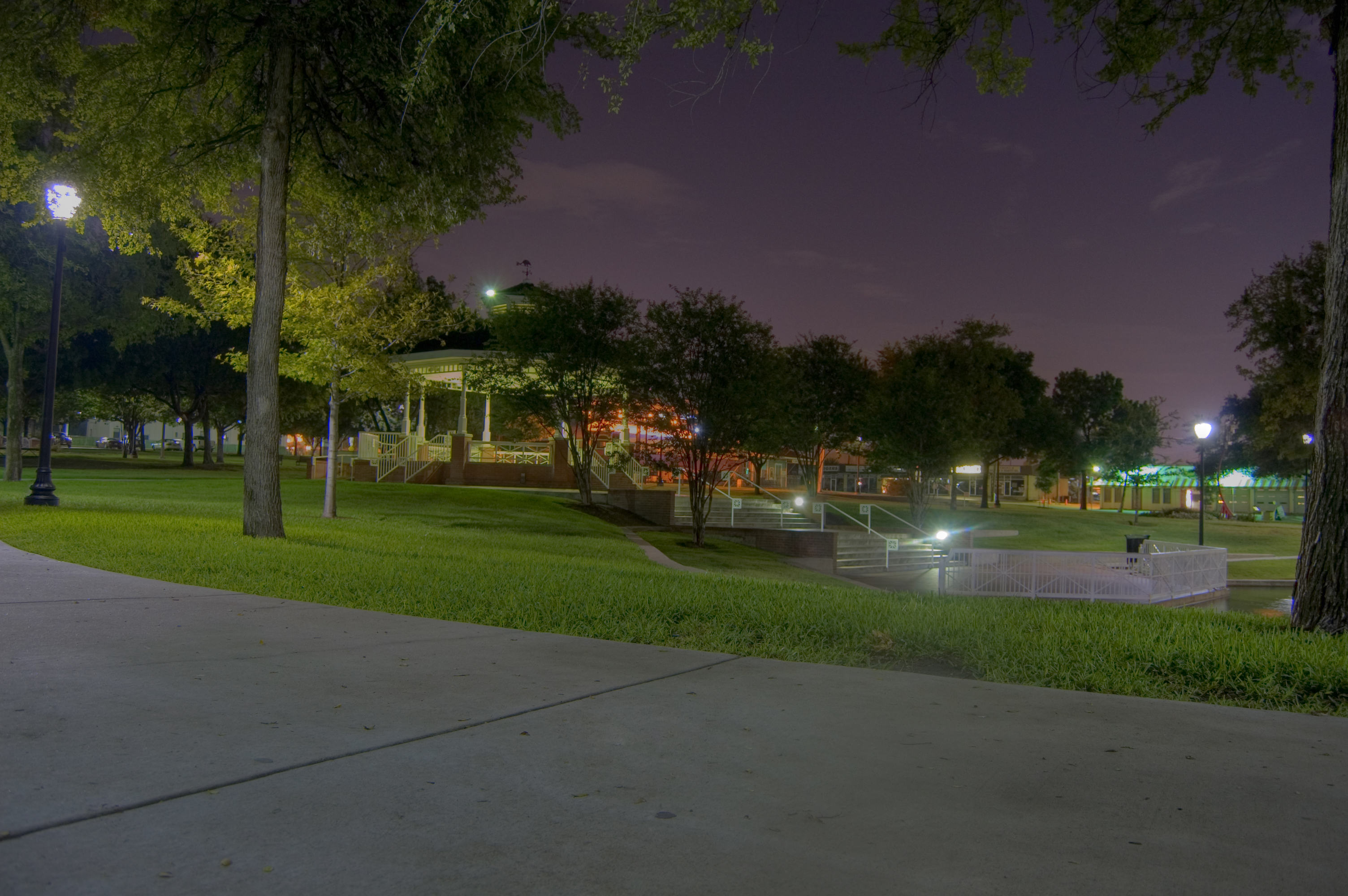 Downtown Plano